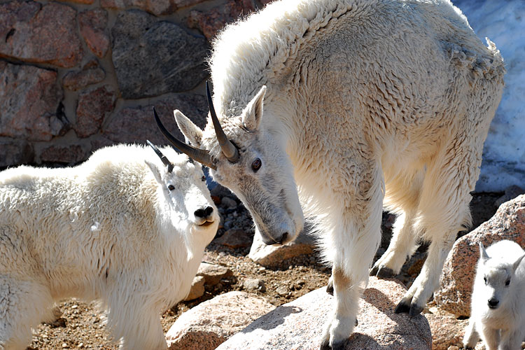 Mt Evans, Colorado, USA - Mountain Goats